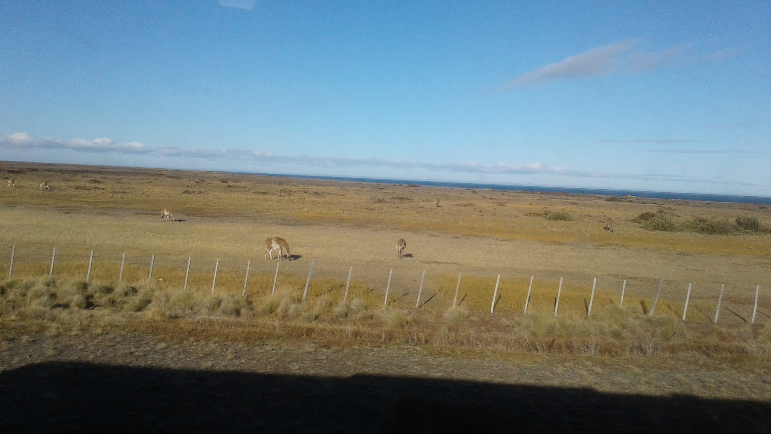 Pastures in Chilean Patagonia. May, 2016